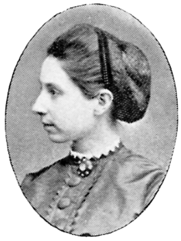 Image scanned from the book "Svenskt Porträttgalleri XX - Arkitekter, Bildhuggare, Målare m.fl. " ("Swedish Portrait Gallery XX - Architects, Sculptors, Painters, ") published 1901